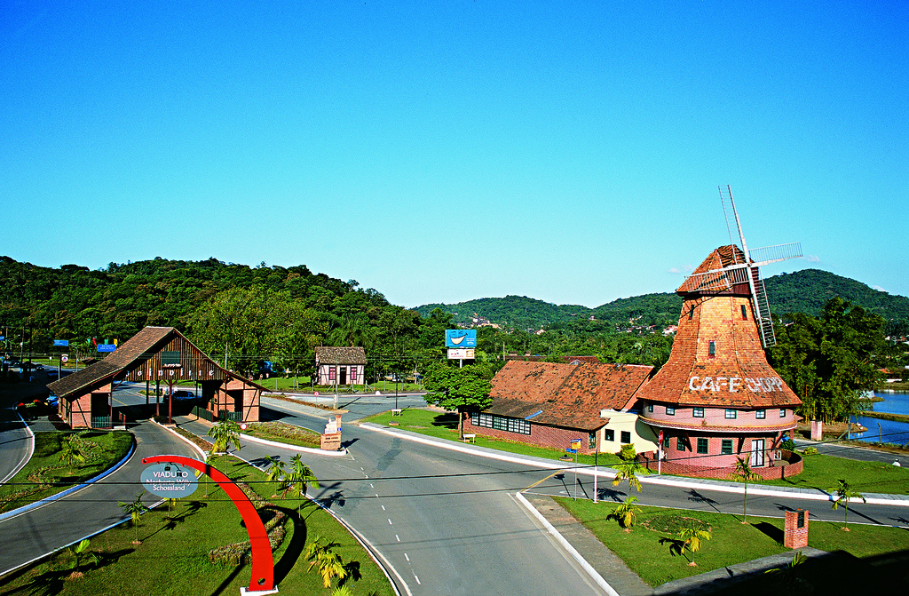 O Pórtico e Moinho é a atração que mais chama a atenção dos turistas, por localizar-se em uma das principais entradas da cidade. Nele a Secretaria Municipal de Turismo atende aos turistas, inclusive nos fins de semana. Resultado da dedicação ao trabalho dos primeiros imigrantes, Joinville tem hoje uma das economias mais diversificadas e desenvolvidas do Sul do país. Além de abrigar indústrias líderes em seus segmentos de atuação,destaca-se também pelo forte setor de serviços e pelo turismo. Joinville é conhecida como Cidade das Flores, das Bicicletas, dos Príncipes e da Dança. Joinville (SC). Foto: Werner Zotz